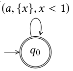 Timed automaton accepting the language a* such that a letter is emitted in each open interval of length one